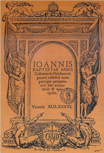 Cover of Giovan Battista Amico's "De motibus corporum coelestium iuxta principia peripatetica sine eccentrici set epicyclis", Venezia, MDXXXVI